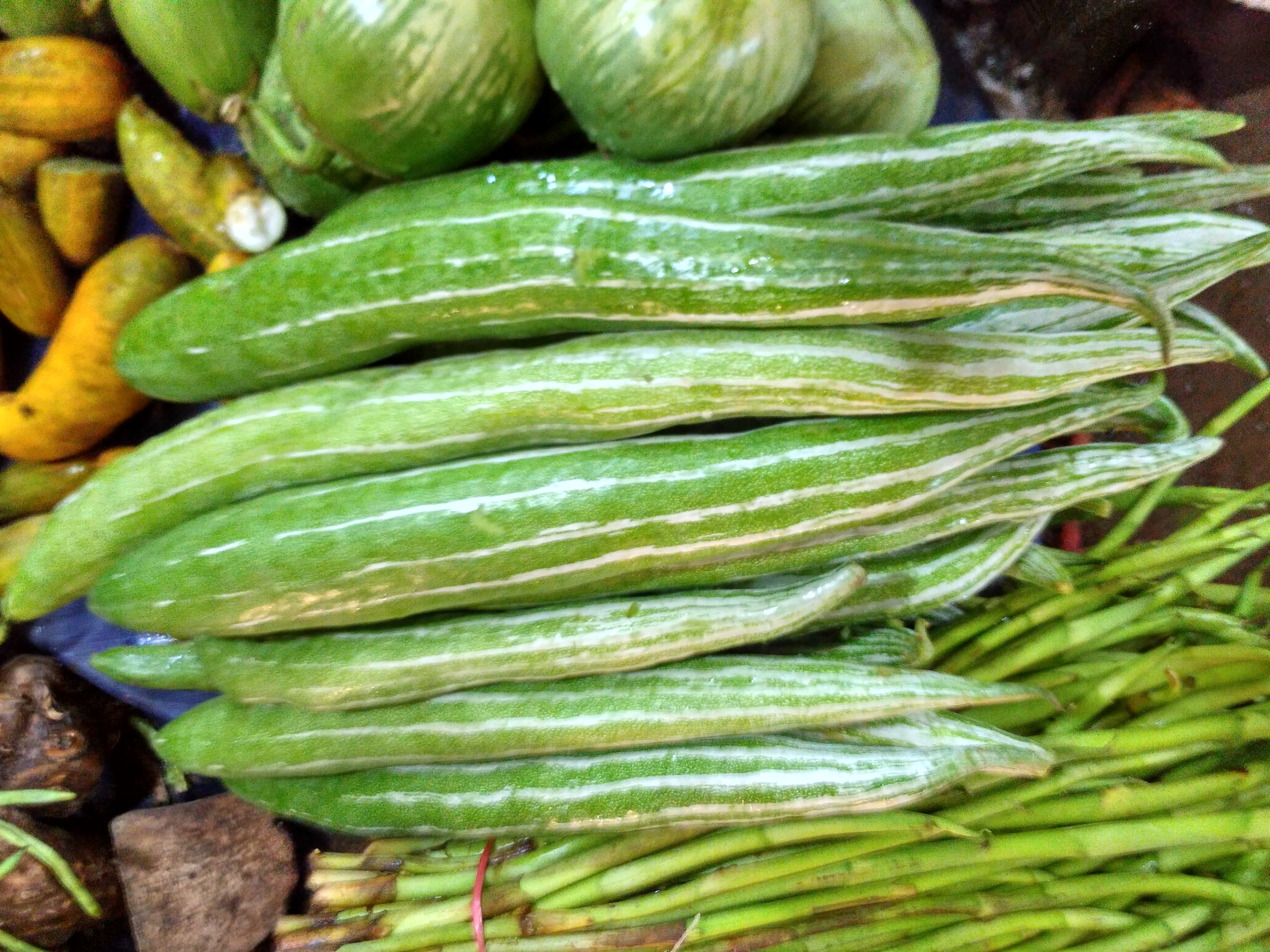 View of snake gourd at a grocery market in Dhaka for sale. Moghbazar Charulata Market Kancha Bazar, Dhaka, Bangladesh. (28.09.2018.)